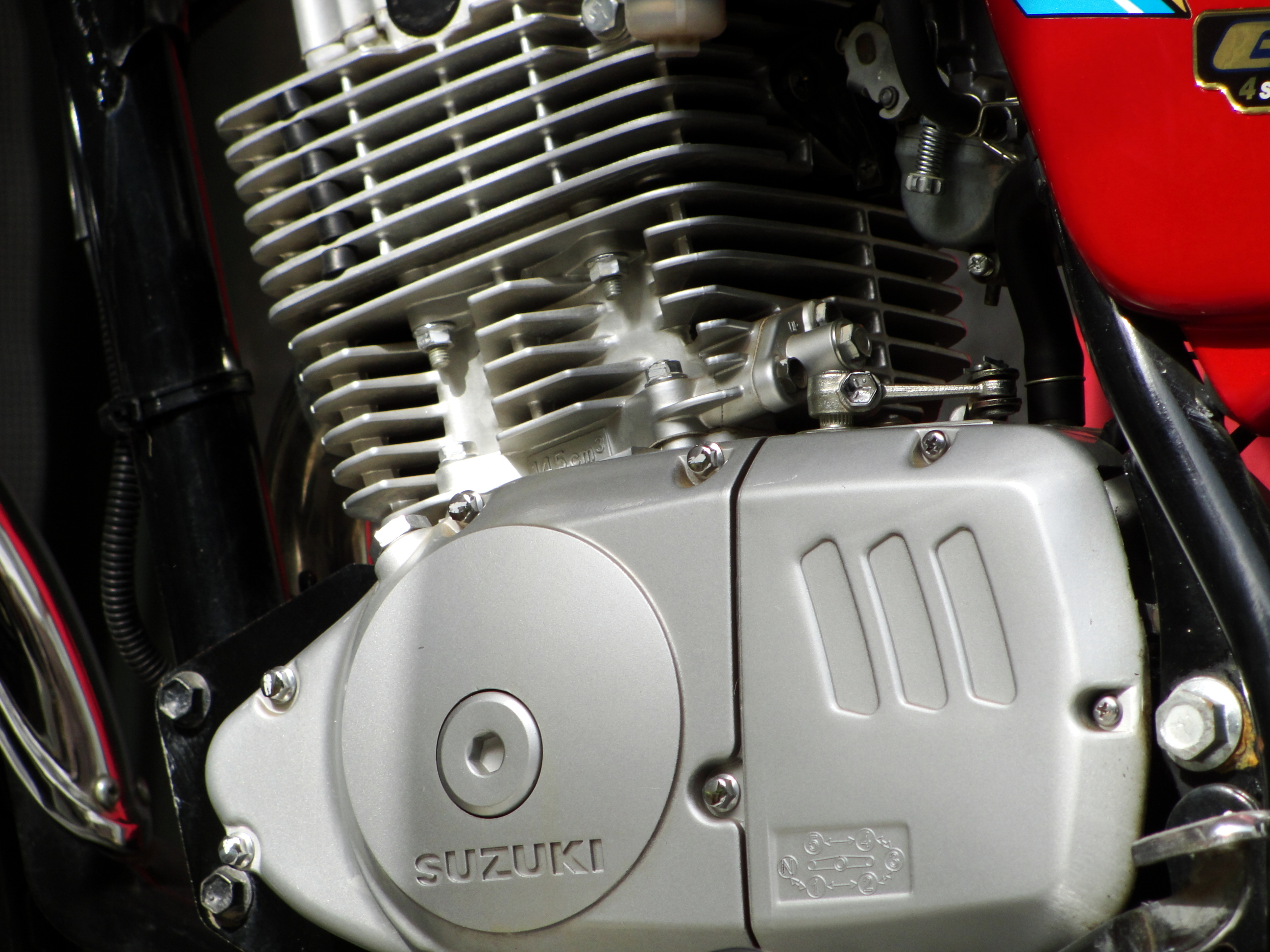 Close-up shot of the engine of Suzuki GS 150 motorcycle